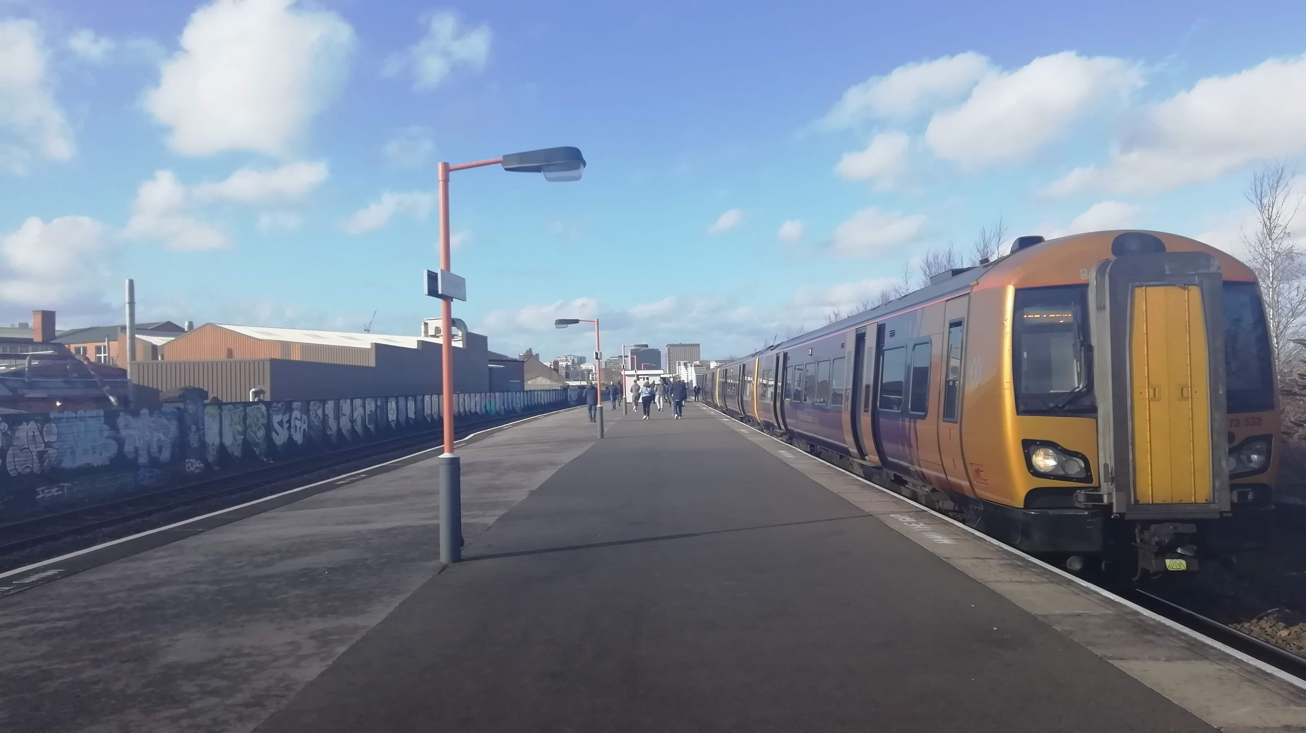 A Class 172 from Kidderminster with disembarking passengers going to the local football stadium for a match.